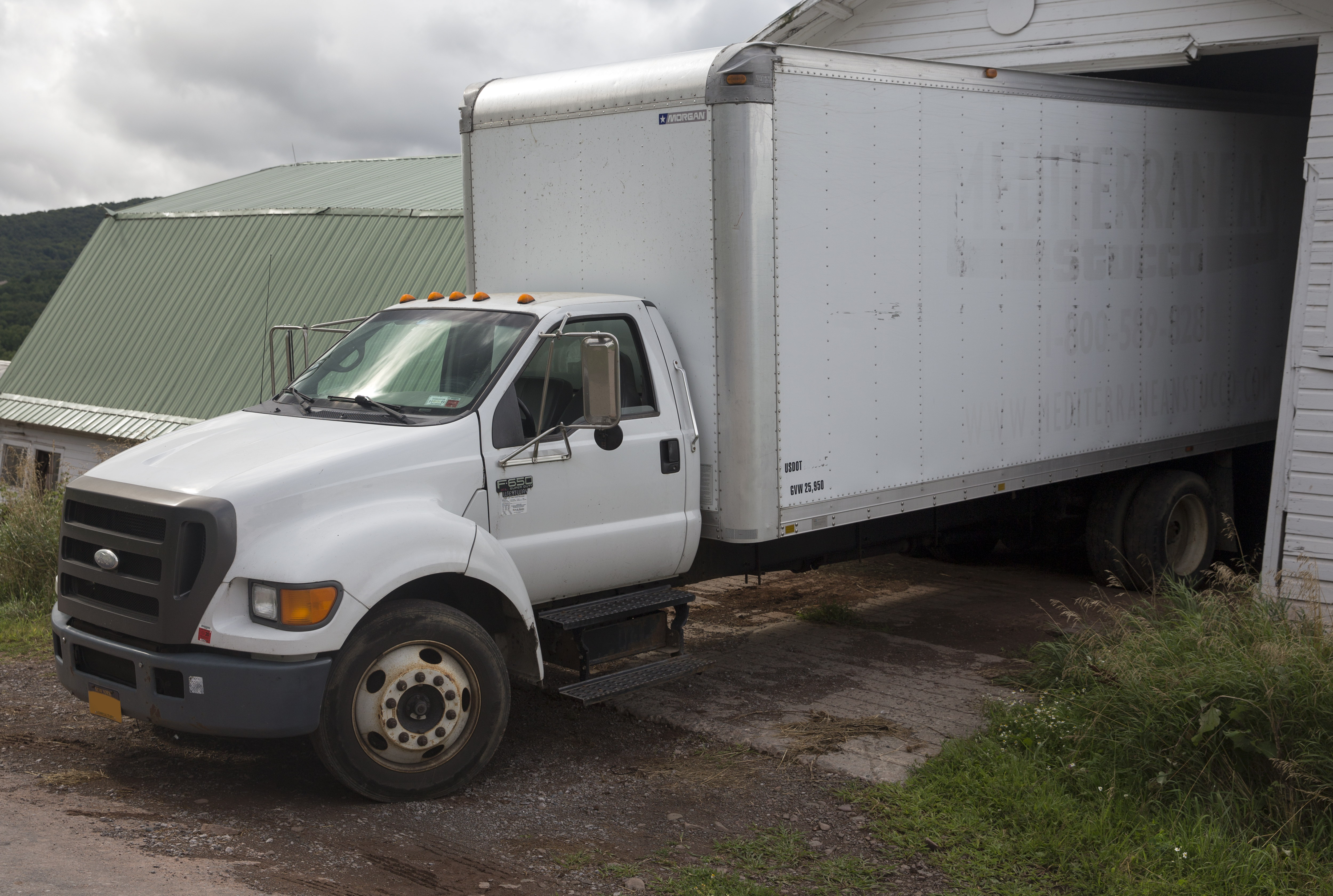 2007 Ford F650 XL Super Duty, with the lowest powered 5.9-liter Cummins diesel (215hp). These share a chassis with the International S-series and were built in a joint venture between the two companies called Blue Diamond Trucks in General Escobedo, Mexico.